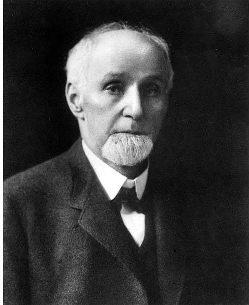 Subjects (LCTGM): Bankers--Washington (State)--Seattle Subjects (LCSH): Horton, Dexter--Portrait photographs